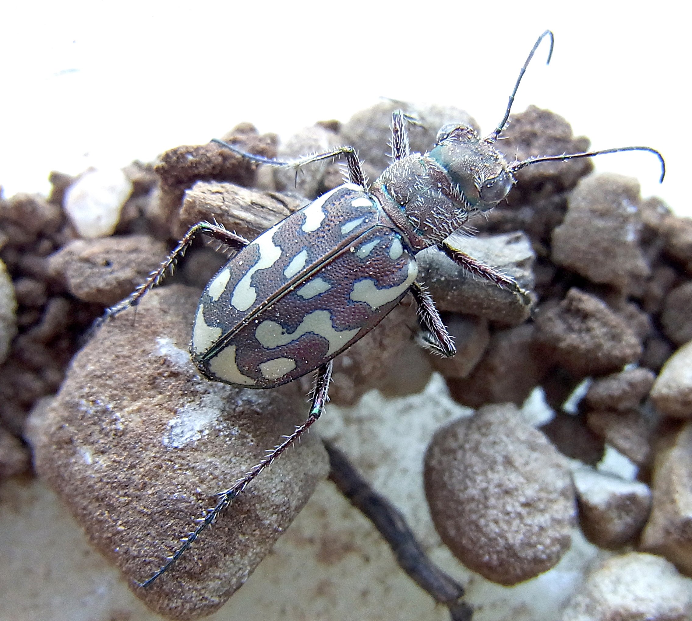 Lophyra flexuosa from Southern France, near Clermont-l’Hérault on dry, sandy ground